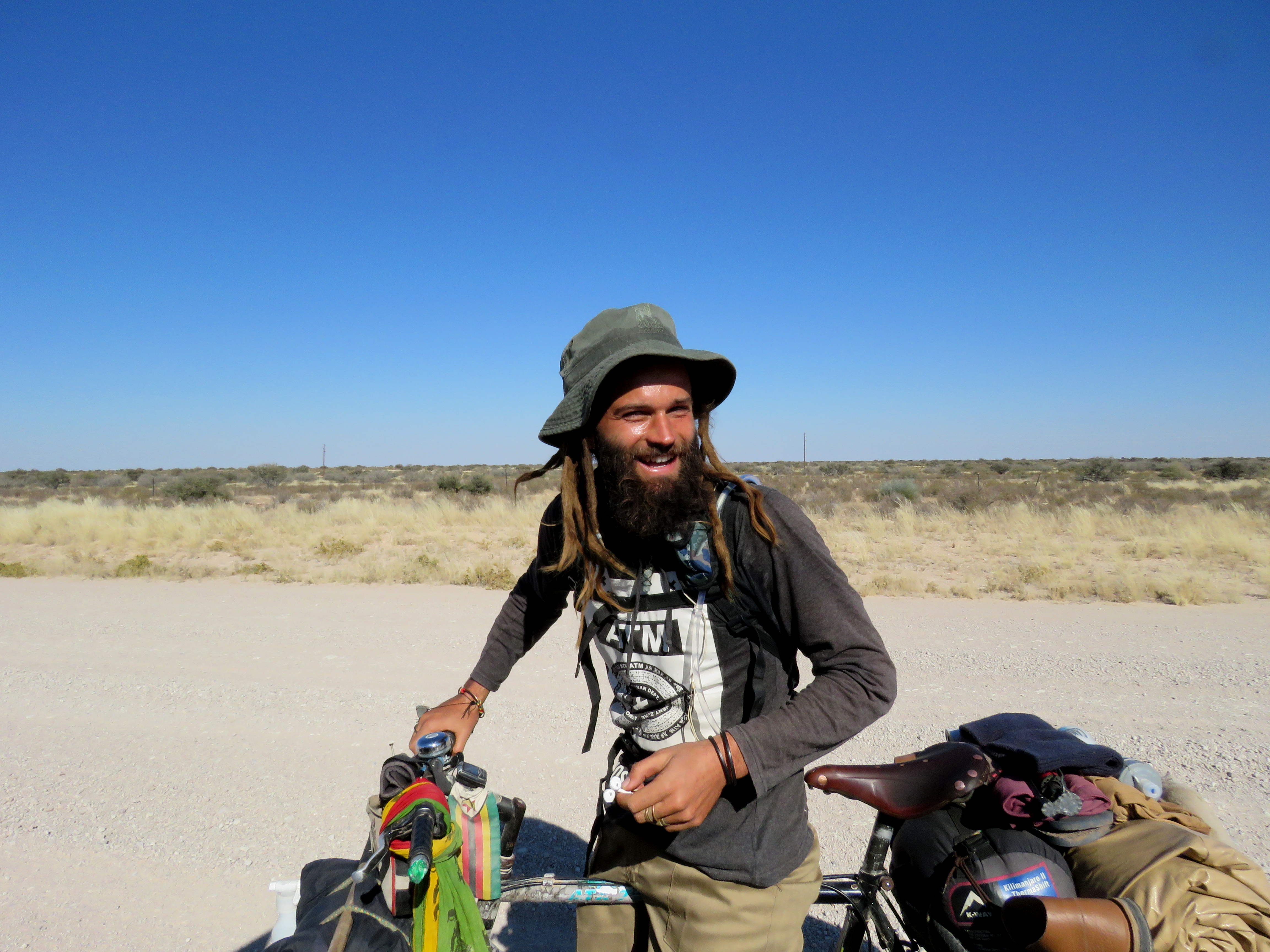 I found this person cycling on a dirt road in the Kalahari. He is cycling from a family-visit in Botswana back home to Cape Town. This is an image with the theme "Africa on the Move or Transport" from: Namibia